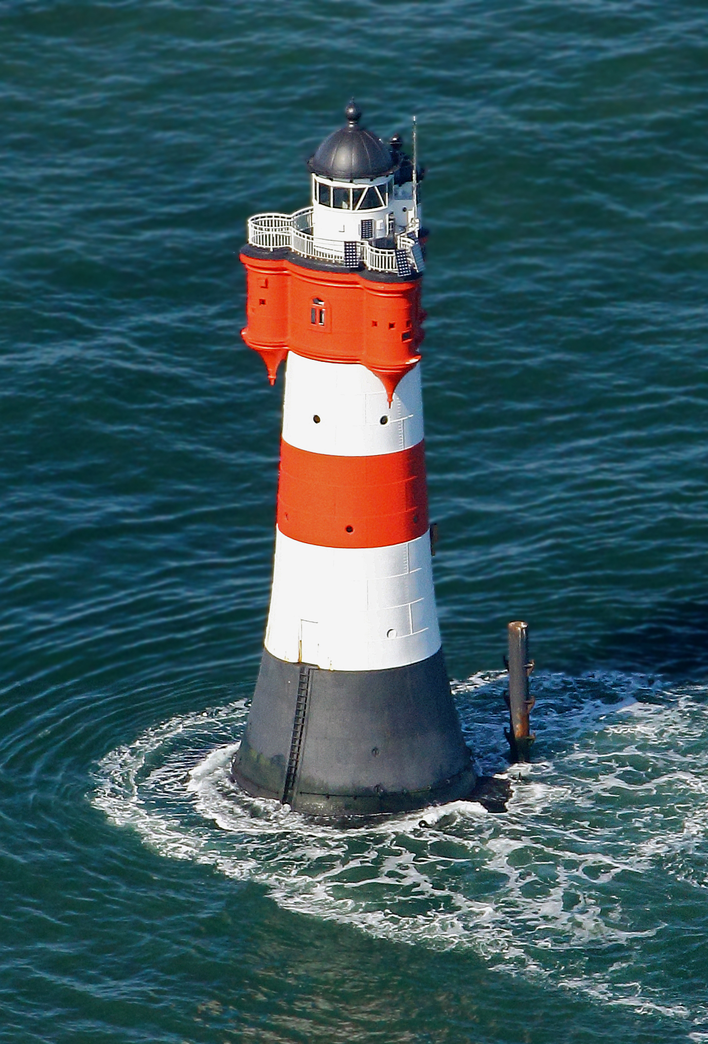 A aerial photograph of a unidentified location.